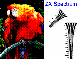 A rendering of Image:Parrot.red.macaw.1.arp.750pix.jpg on the ZX Spectrum GigaScreen display.